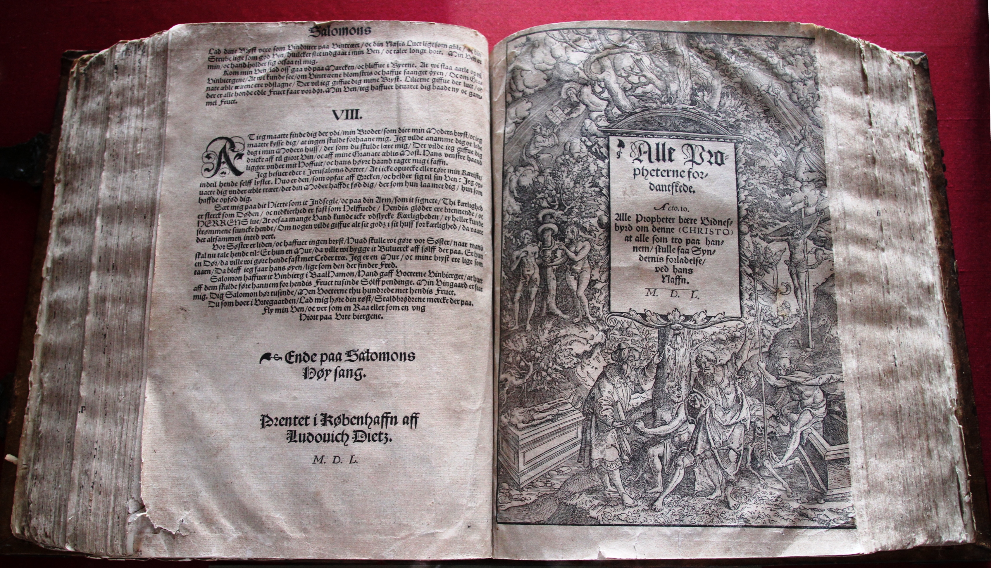 Christian III of Denmark let this bible edit be printed in danish shortly after the Reformation, in 1550. It was printed in Copenhagen by Ludwig Dietz. This specimen has belonged to the sea hero Peder Skram. Exhibit at Frederiksborg Slot (Castle), Denmark.